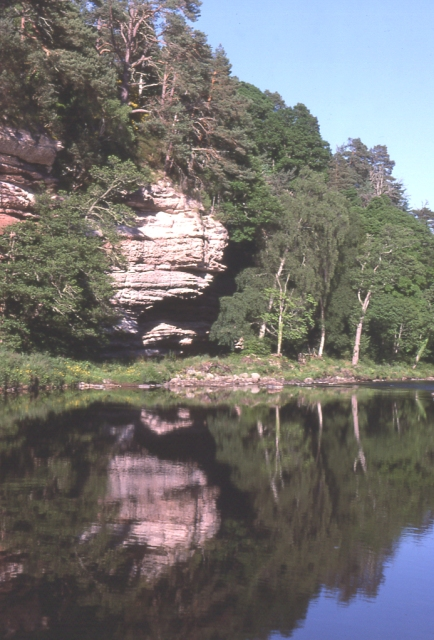 River Findhorn. A low sandstone cliff overhangs a quiet reach of the River Findhorn.